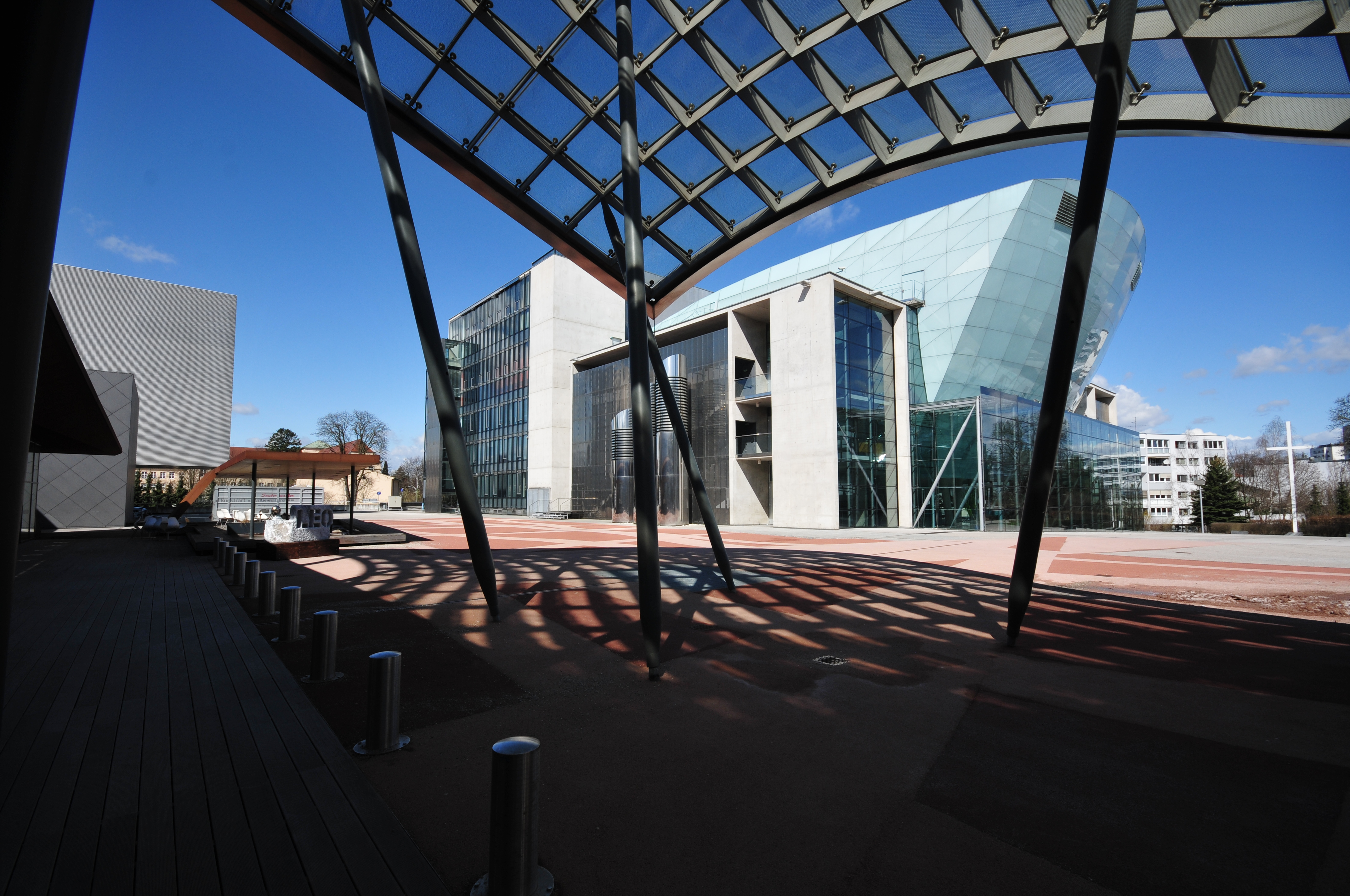 St. Pölten, Austria, Landhausviertel Fotowanderung St. Pölten 13. April 2013 in St. Pölten, Niederösterreich 50mm • Allgemeines • Bahnhof • Domplatz • Fahrräder • Landhausviertel • Rathausplatz